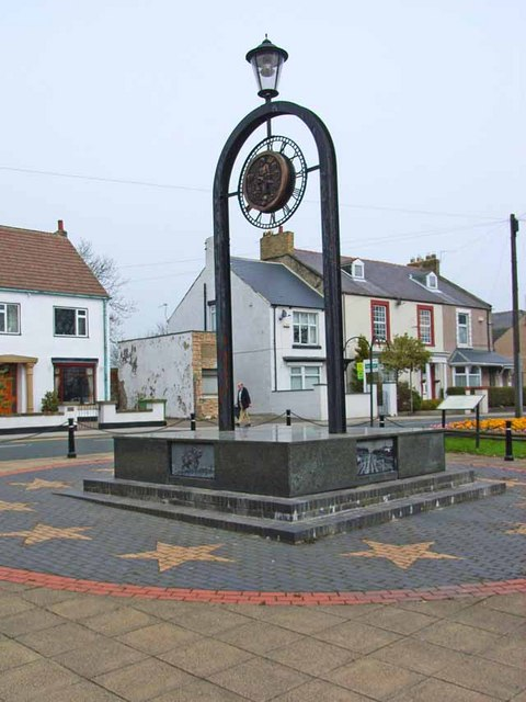 Beacon of Europe, Ferryhill The Beacon of Europe was erected in 1992 to commemorate the single Market in Europe.